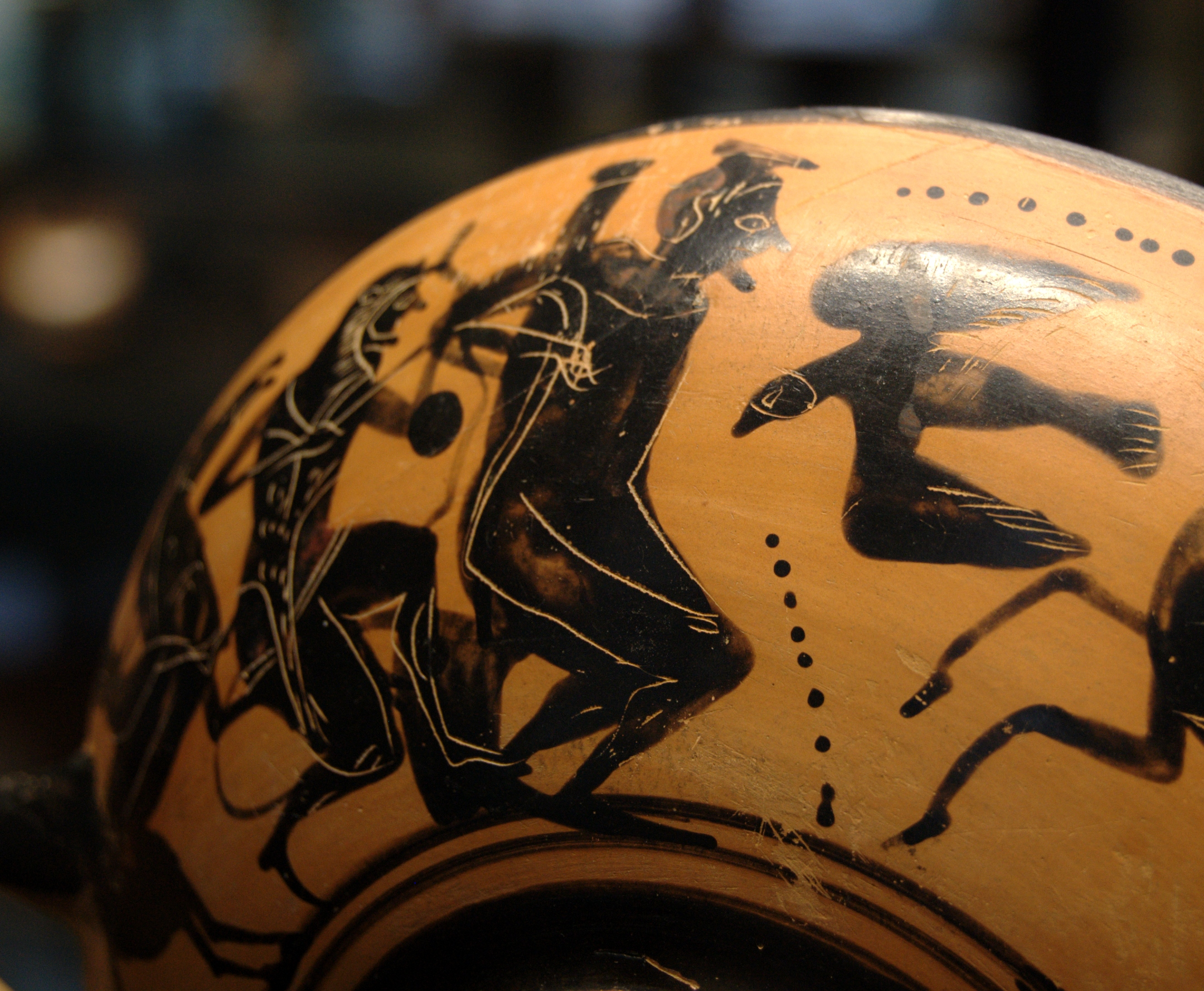 Heracles freeing the bound Prometheus. Side A of a Boeotian (?) black-figured cup made in Athens, ca. 500 BC.